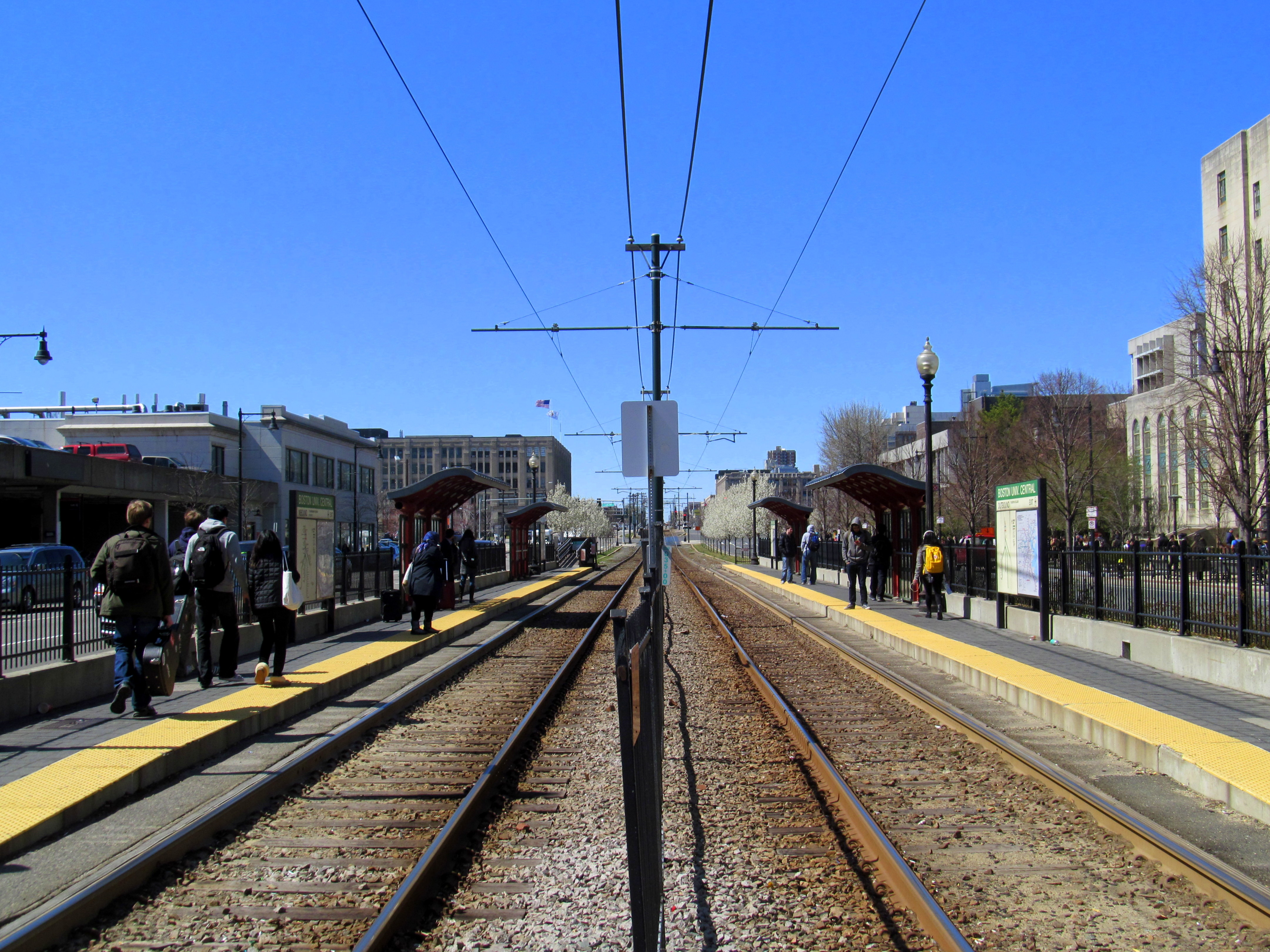 BU Central station, viewed from the median strip